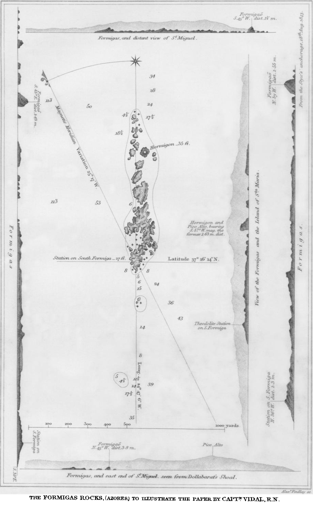 map of Formigas Islets, Azores, Atlantic Ocean (belong to Portugal)